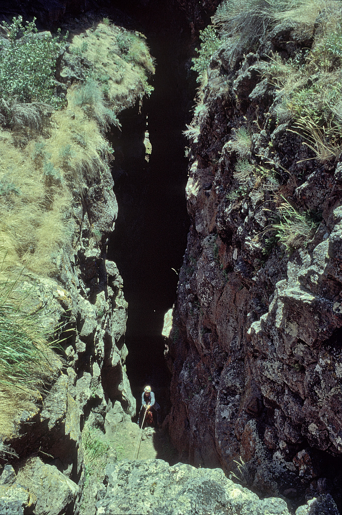 A caver descends into a cave in a volcanic rift, also known as Crystal Ice Cave on the Great Rift of Idaho. It illustrates another type of lava cave that forms differently than lava tubes.